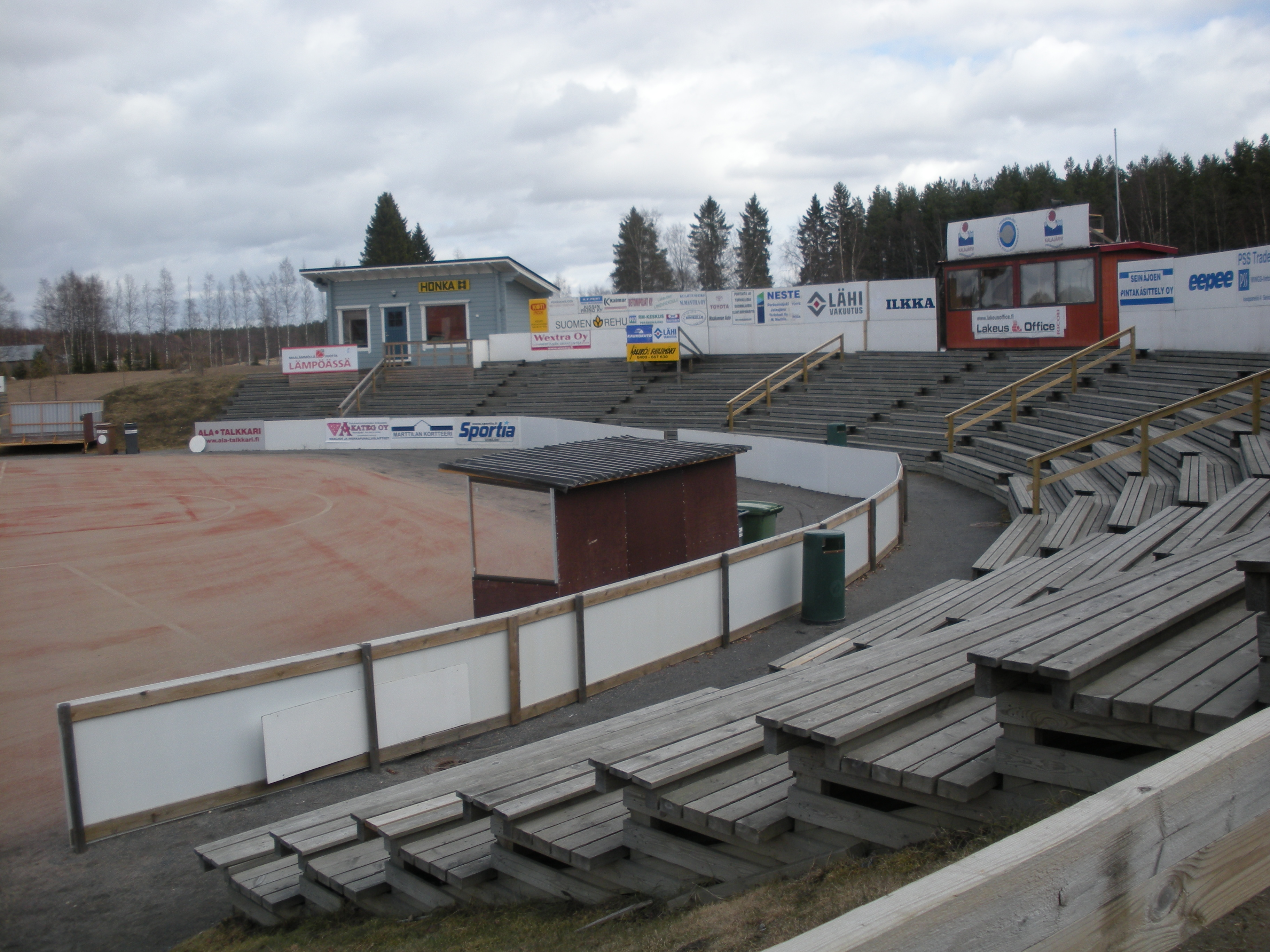 Baseballstadium in Peräseinäjoki, Seinäjoki, Finland